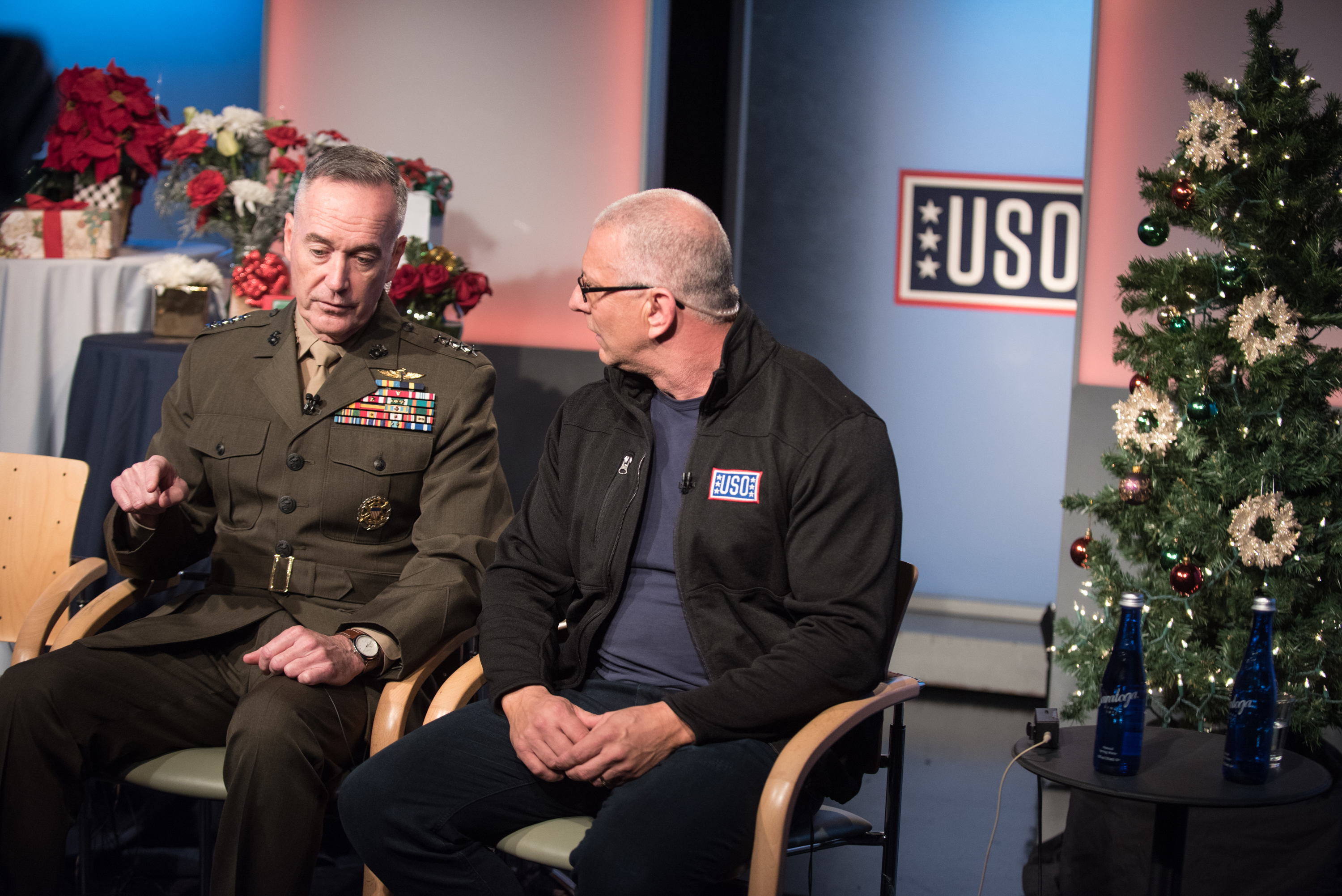 U.S. Marine Corps Gen. Joseph F. Dunford, Jr., chairman of the Joint Chiefs of Staff, chats with Chef Robert Irvine in between television and radio interviews at the National Press Club in Washington, D.C., Dec. 23, 2016. Gen. Dunford joined country music artist Kellie Pickler, her husband and country music songwriter Kyle Jacobs, Chef Robert Irvine, and comedian Jeff Ross to speak about their upcoming USO Tour to the Middle East to visit troops for the holidays. (DoD Photo by U.S. Army Sgt. James K. McCann)